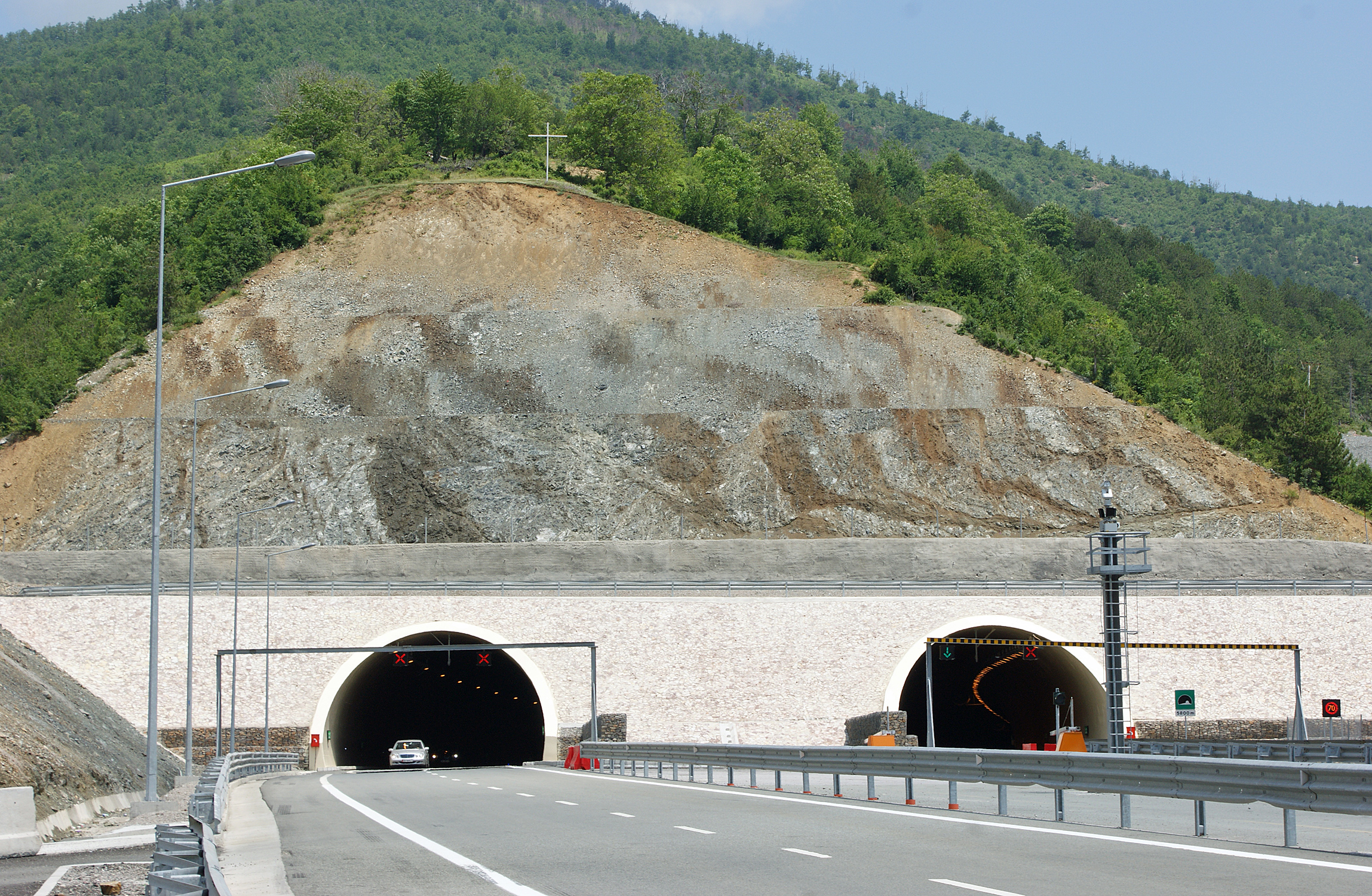 Thirra-Kalimash Tunnel in Northern Albania. Tunnel entrance in Thirra